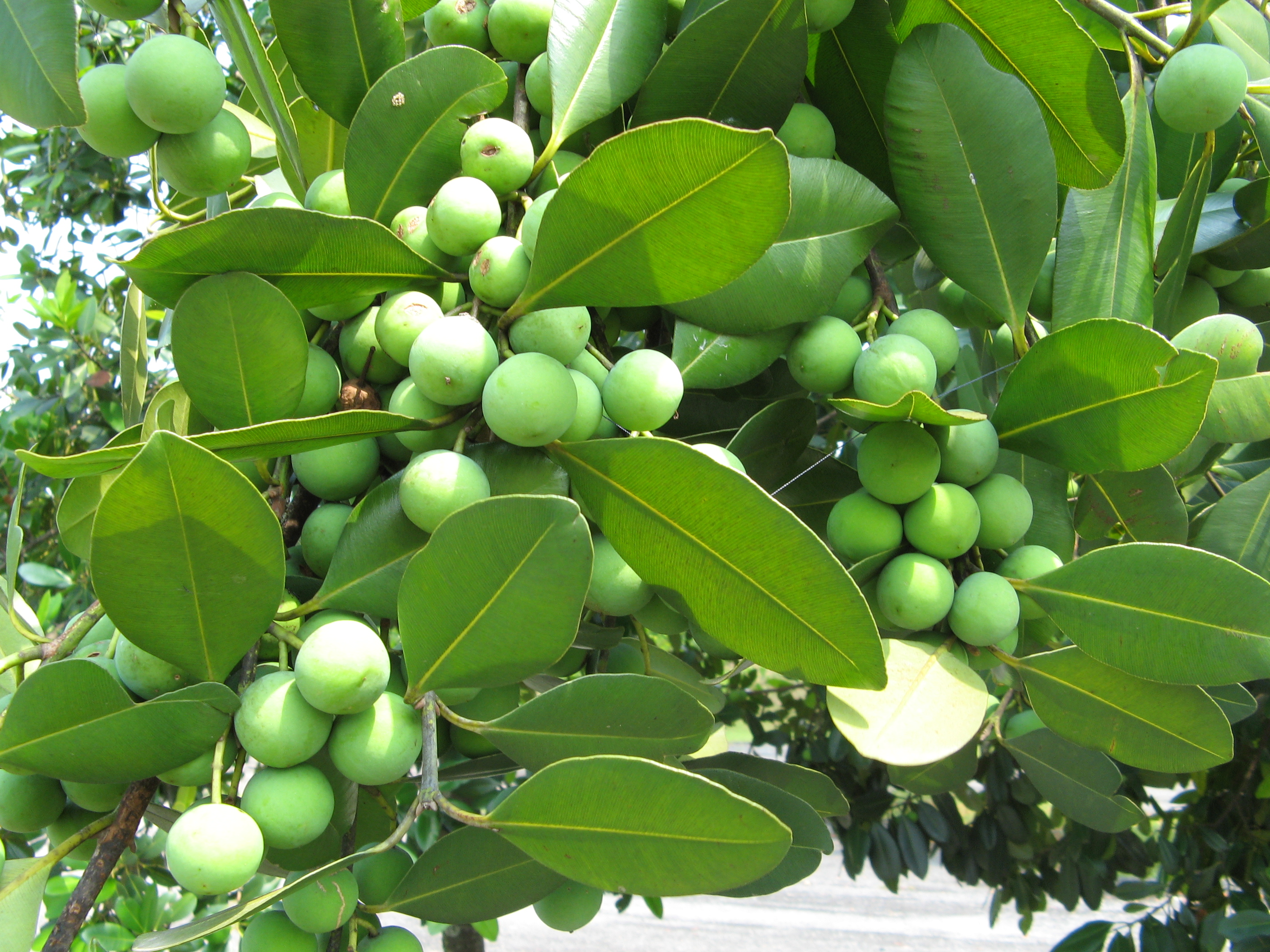 fruits og guanandi at sao paulo botanical garden, pic taken by myself